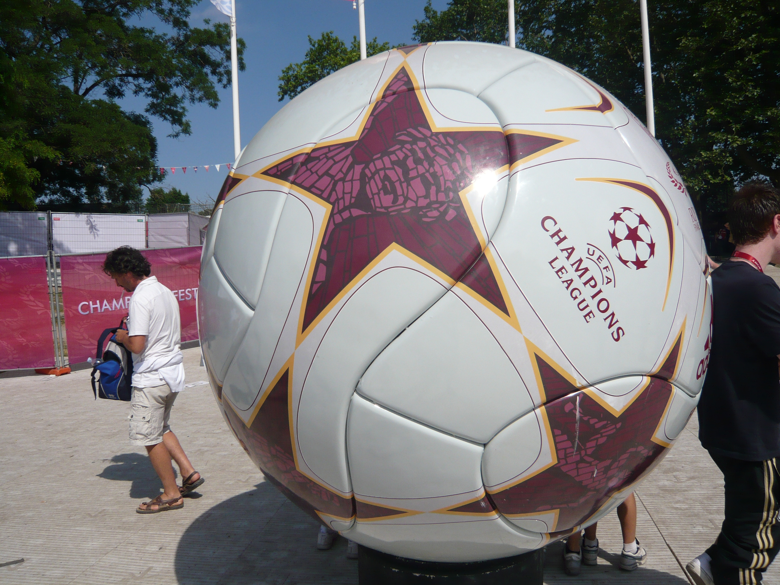 The riprodution of the official match ball at the 2009 UEFA Champions League Festival in Rome.